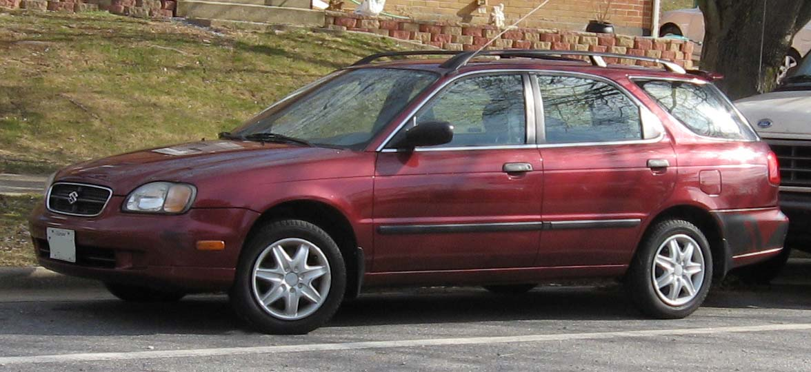 1999-2002 Suzuki Esteem wagon photographed in USA.